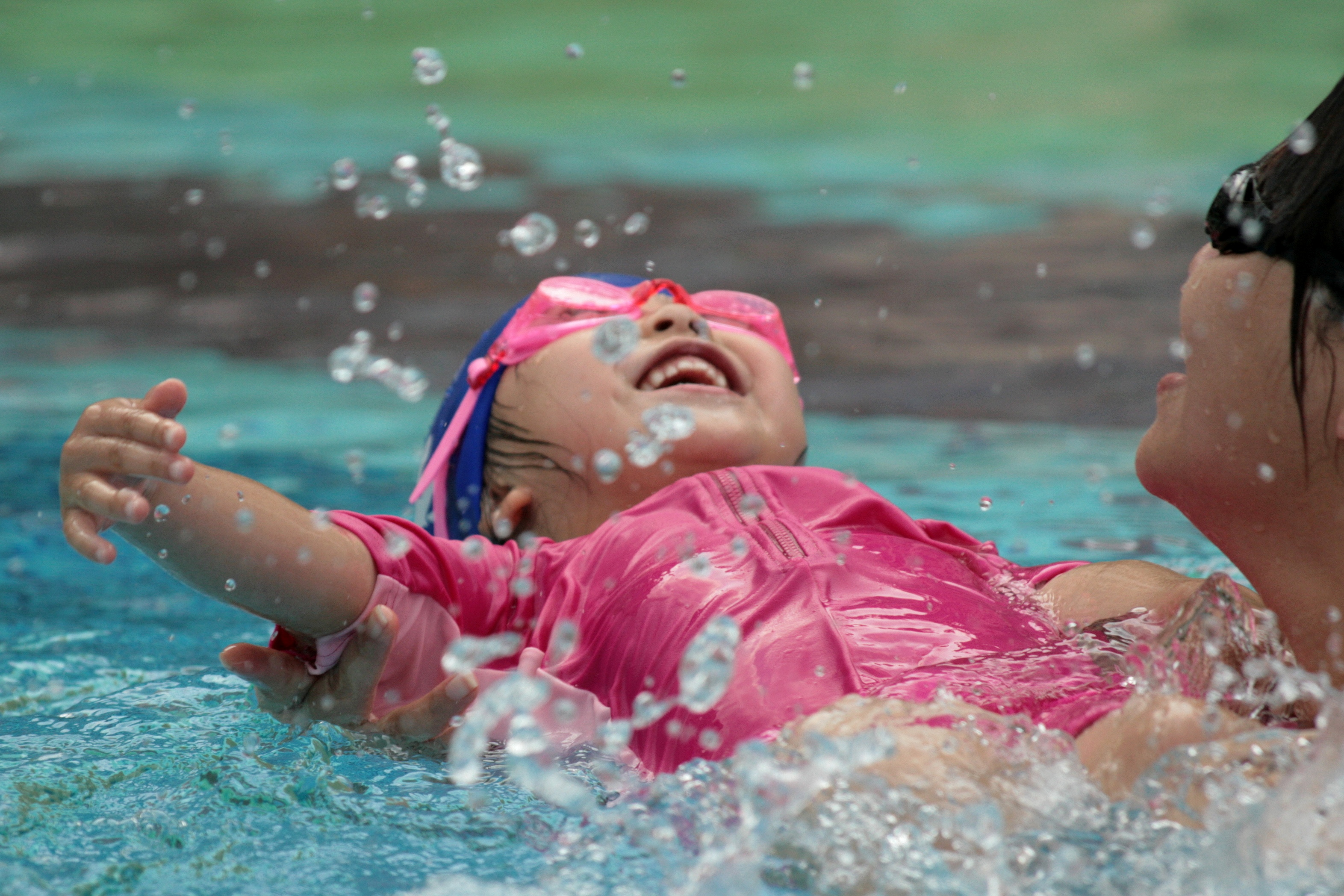 Learning to swim on her back